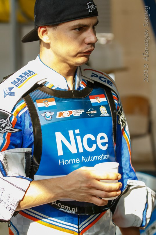 Jurica Pavlic. 2nd final of Individual Speedway European Championship 2013. Togliatti, Russia